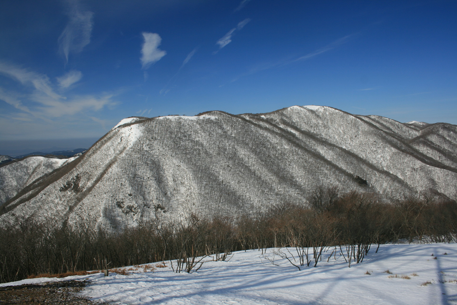 Mount_Oike_from_Zudagahira